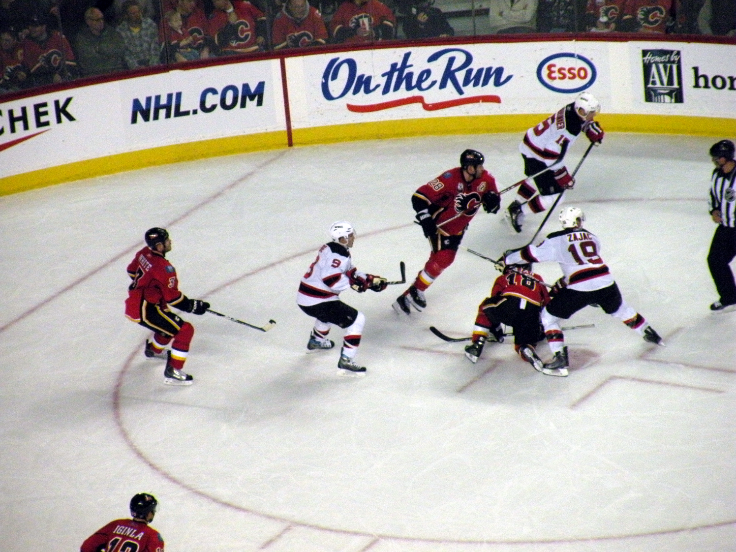 The Calgary Flames and New Jersey Devils in action in a National Hockey League game in Calgary. The Flames won 5–3.